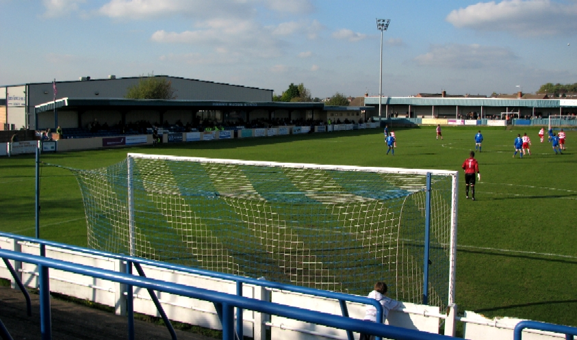 Halesowen Town vs Brackley Town at The Grove, Halesowen. 20th October 2007.